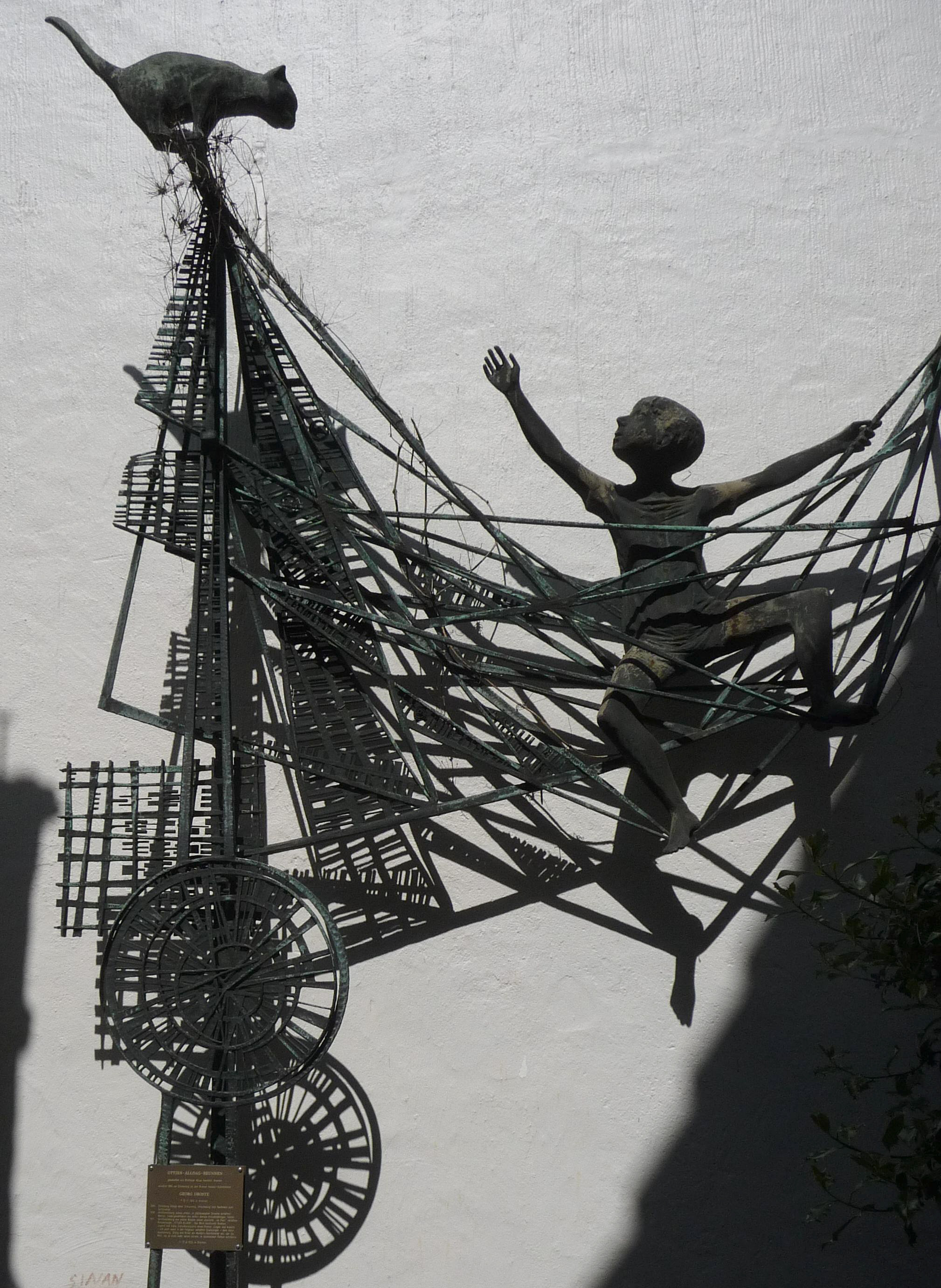 Schnoor (street in Bremen, Germany)